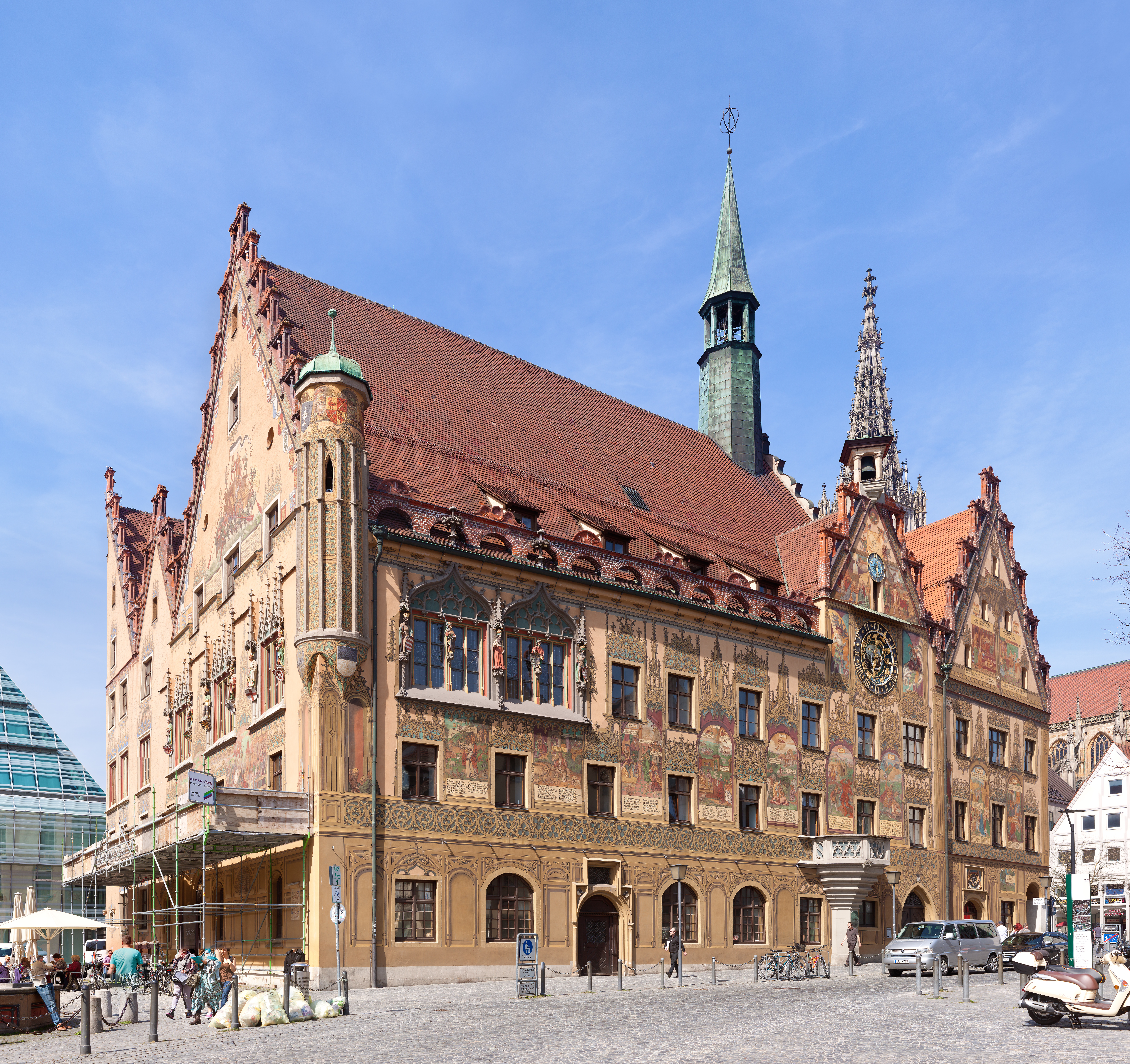 Townhall in Ulm.